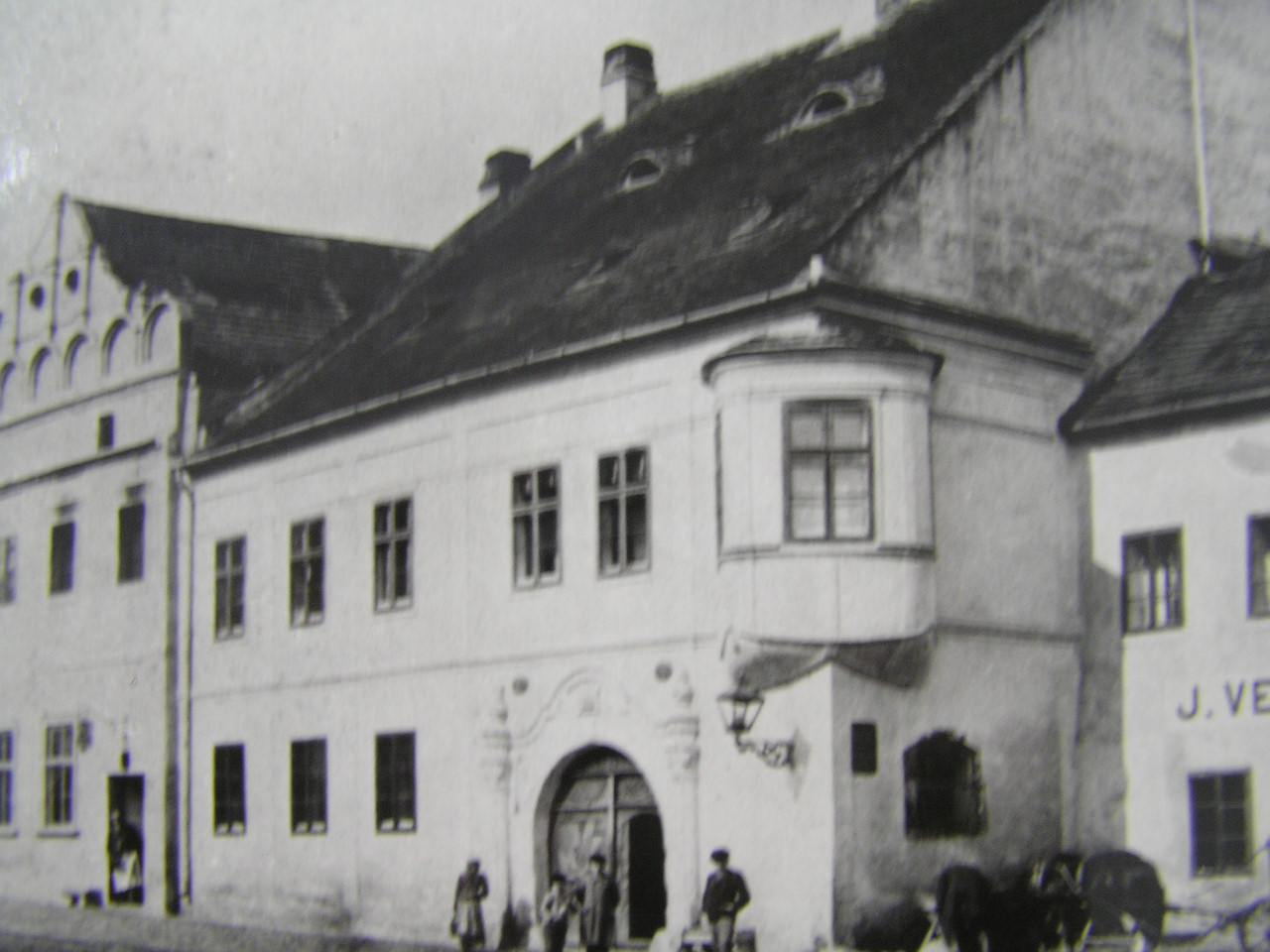 Old photo of Budischowsky factory in Stařečka 87, Třebíč.